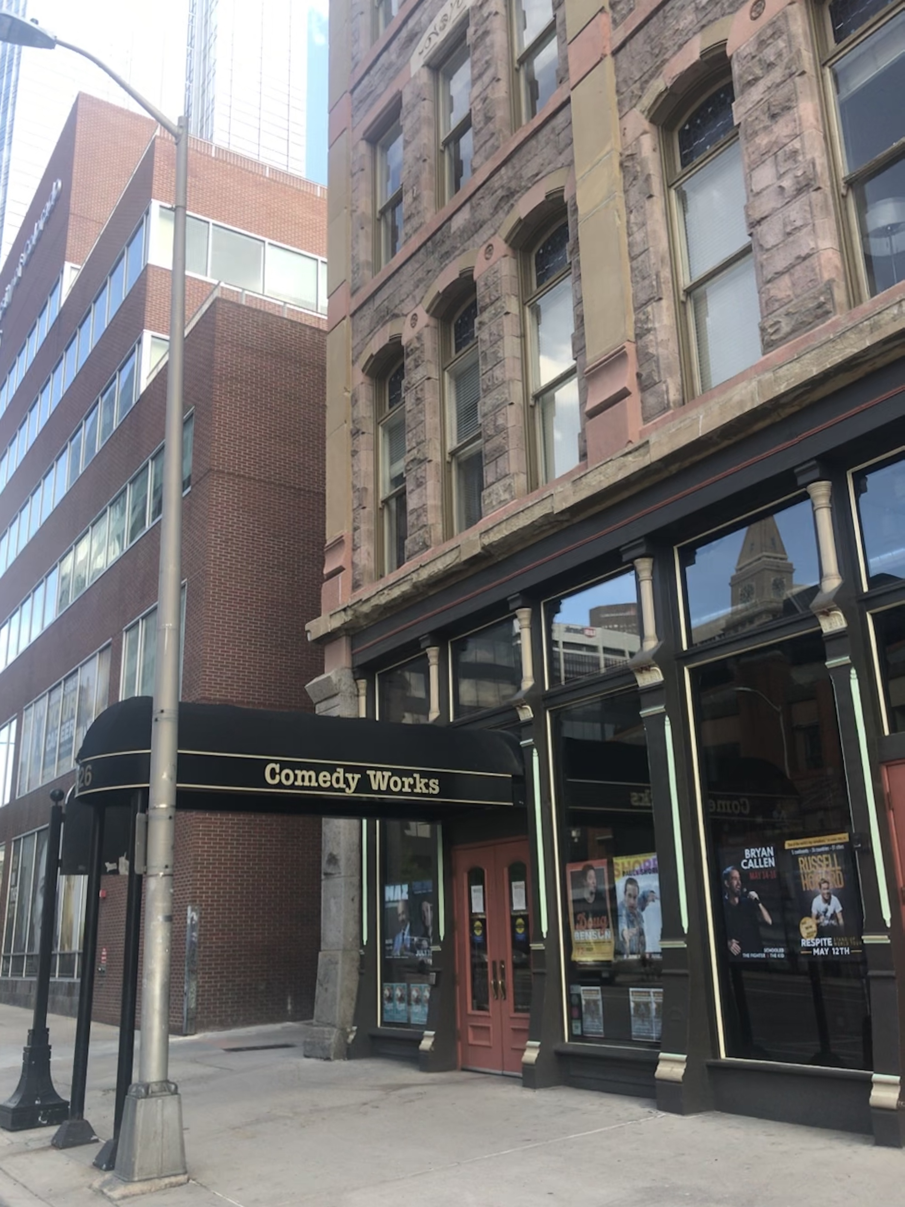 Front door to Comedy Works